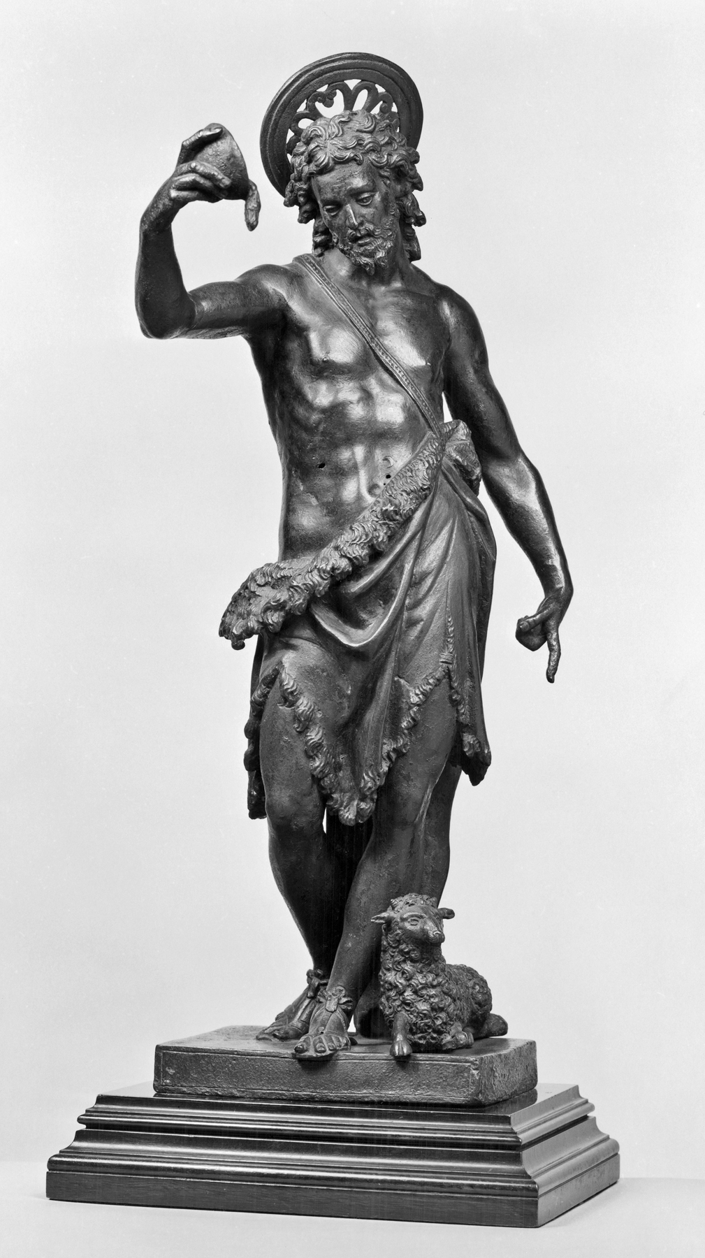 This elegantly elongated statue of St. John the Baptist shown in the act of baptizing was once placed in a holy-water stoup (basin), as can be seen from the greenish patina on the base caused by contact with water. The location was most likely a church in Venice or Genoa, where the sculptor worked. St. John foretold the coming of Christ and baptized him. The lamb is a symbol of Christ (who offered himself as a sacrifice in place of the traditional lamb). The little cross-like punch marks on the strap that holds the fur are typical of the decoration on objects from the Roccatagliata workshop. The dark surface patina is characteristic of Venetian bronzes.